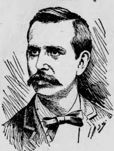 J. Washington Logue (Pennsylvania Congressman)